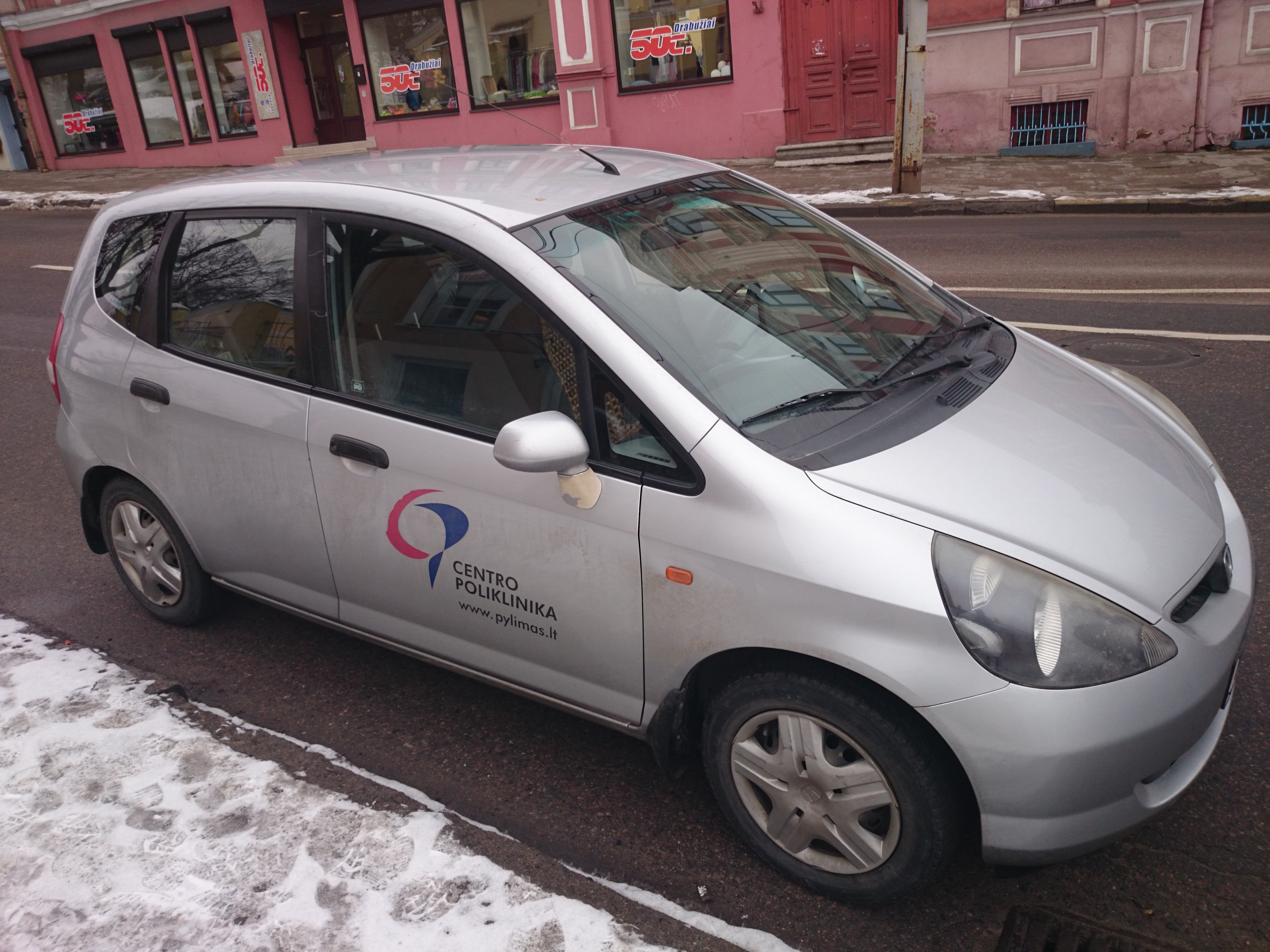 C polil